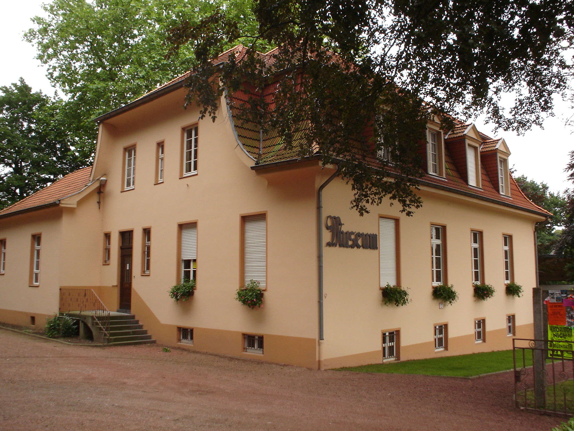 Museam about Neutral Moresnet in the current Belgian town of Neu-Moresnet.